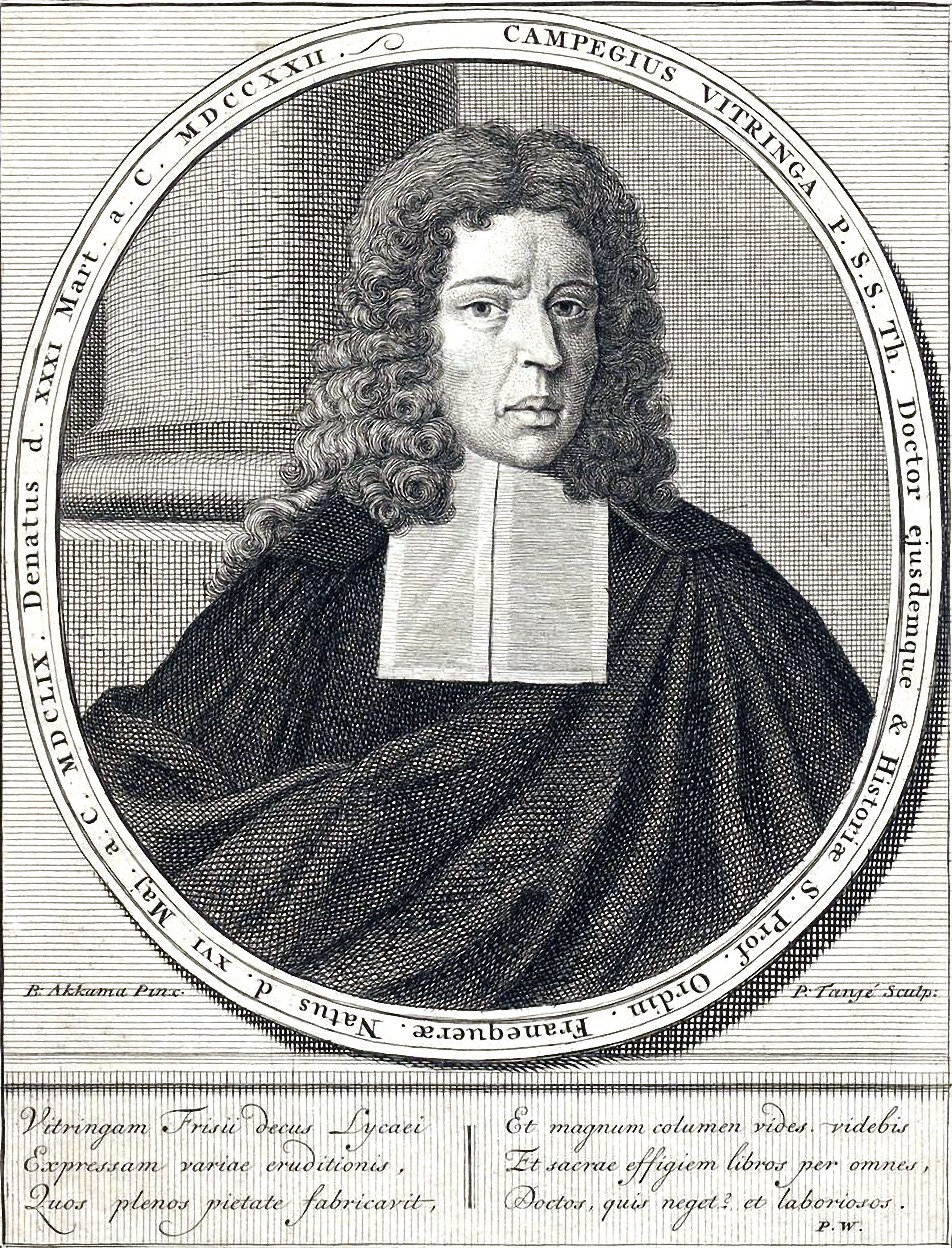 Campegius Vitringa the Elder (1659-1722) Theologian from the Netherlands